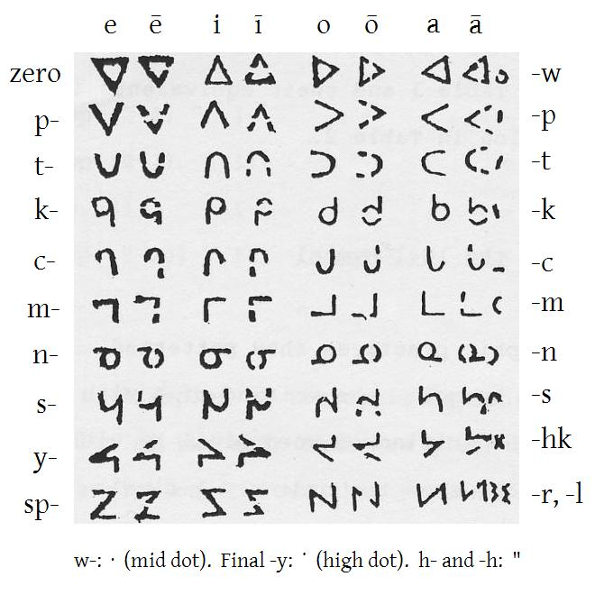 Evans' original 1841 version of the Cree script.